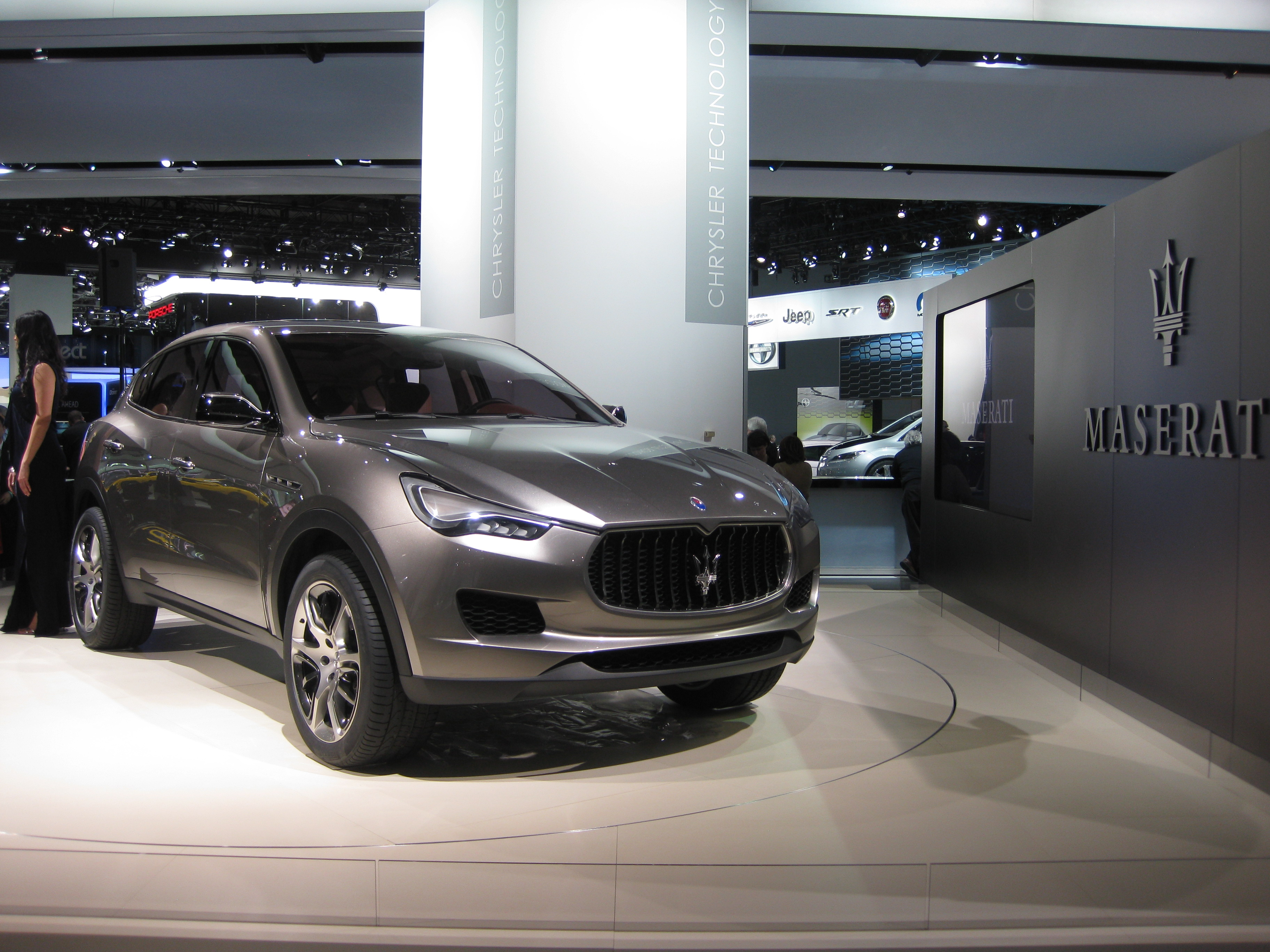 For more info and images please check